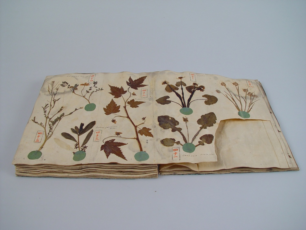 Herbarium book from the Siebold Collection at Naturalis Biodiversity Center.